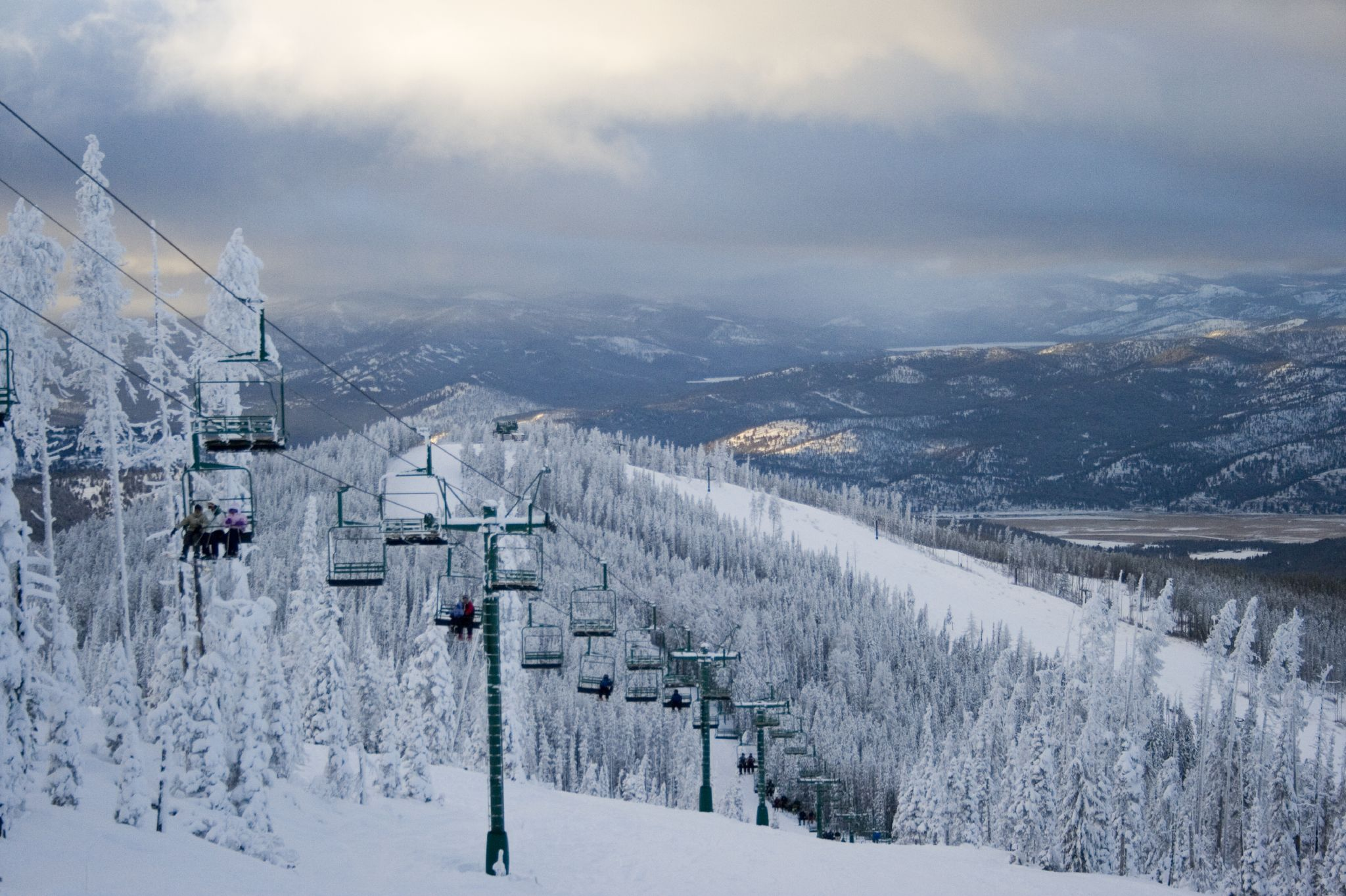 Blacktail Mountain Ski Area near Lakeside, Montana